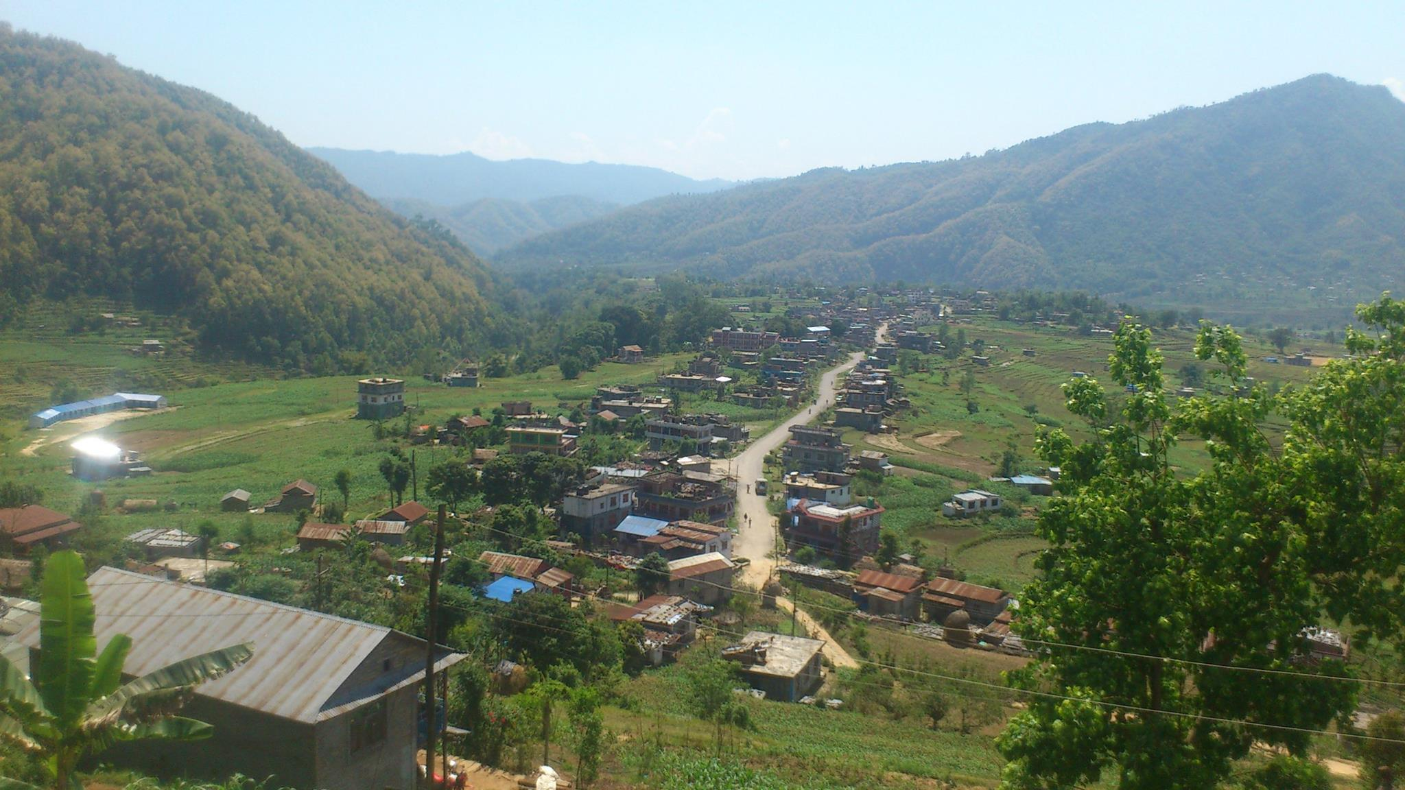 Bhorletar